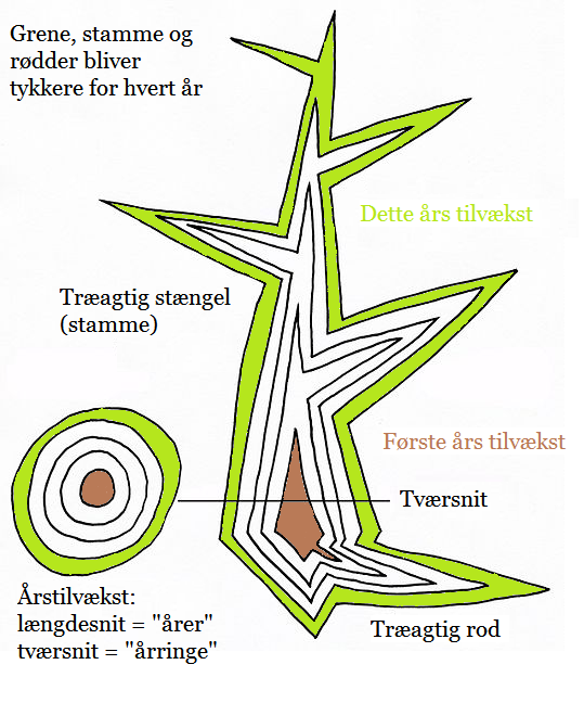 This is an illustration of the growthpattern in trees. It was ceated based on Tree secondary growth diagram.jpg - but texed in Danish.